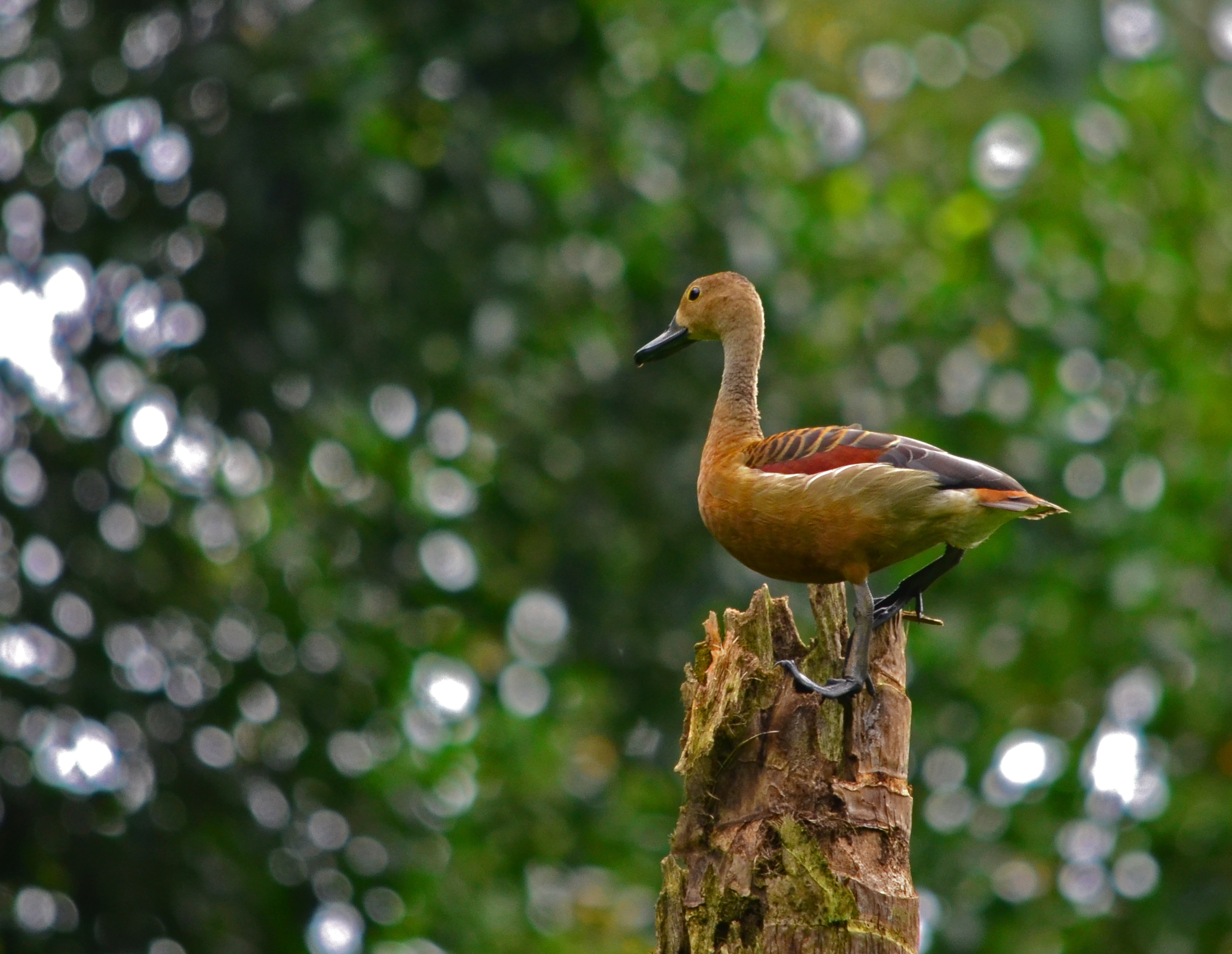 The lesser whistling duck (Dendrocygna javanica), also known as Indian whistling duck or lesser whistling teal, is a species of whistling duck that breeds in the Indian subcontinent and Southeast Asia. They are nocturnal feeders that during the day may be found in flocks around lakes and wet paddy fields. They can perch on trees and sometimes build their nest in the hollow of a tree. This brown and long-necked duck has broad wings that are visible in flight and produces a loud two-note wheezy call. It has a chestnut rump, differentiating it from its larger relative, the fulvous whistling duck, which has a creamy white rump.